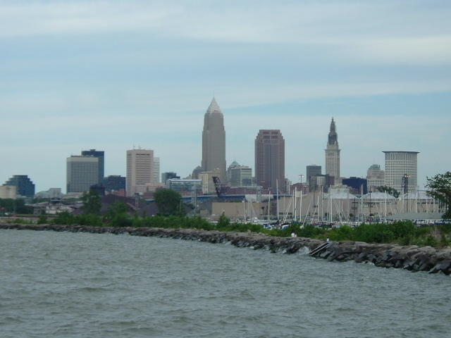 Downtown Cleveland as viewed from Edgewater State Park. Taken by the uploader, Censusdata; all rights released.